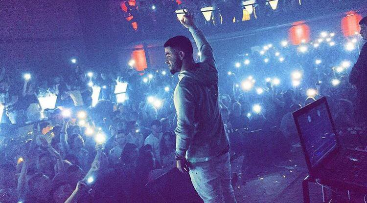 Noizy performing on stage (2016)